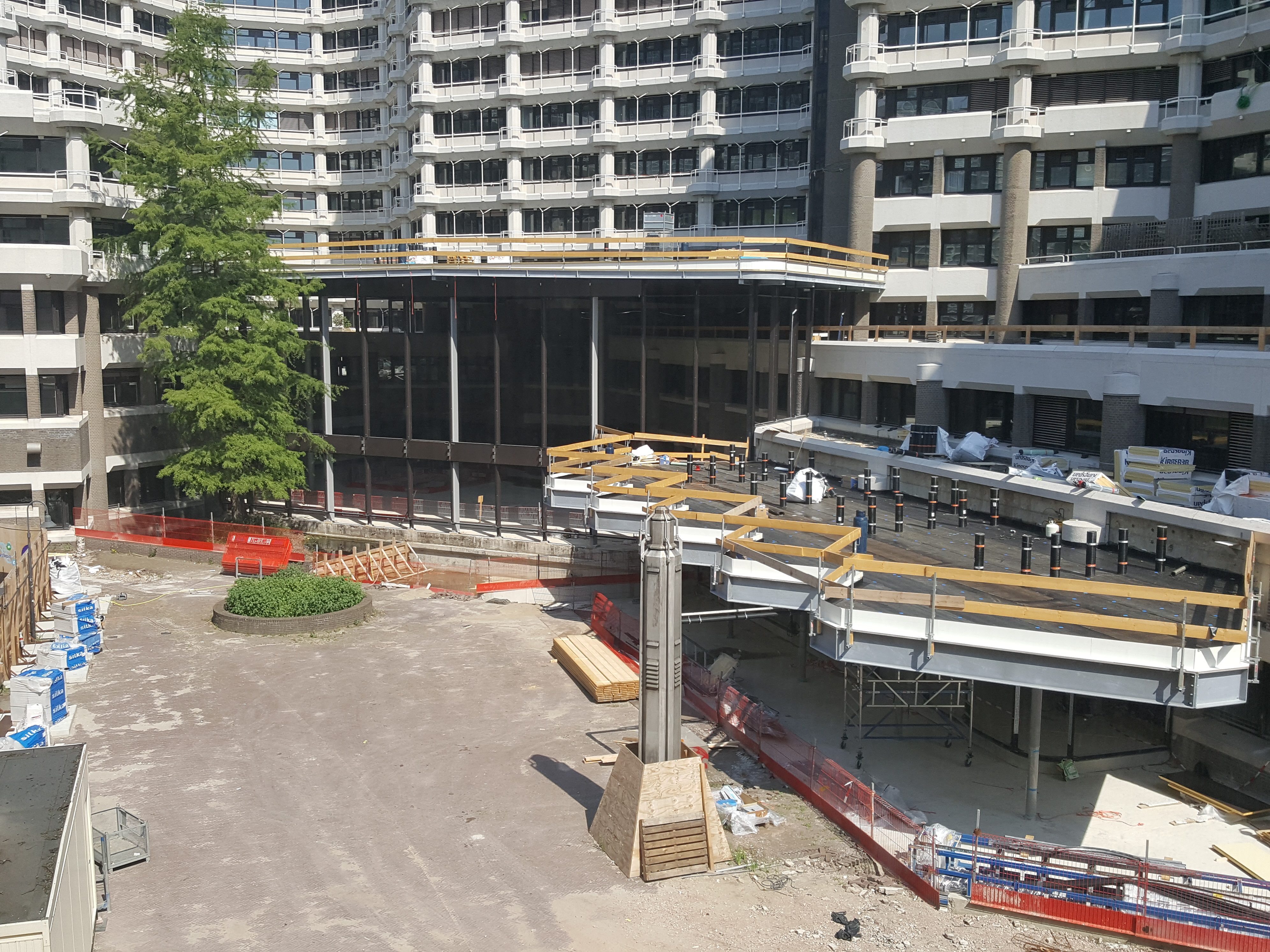 Insulating the roof, building the public entrance of the temporary Dutch Parliament, 26 juli 2019.jpg